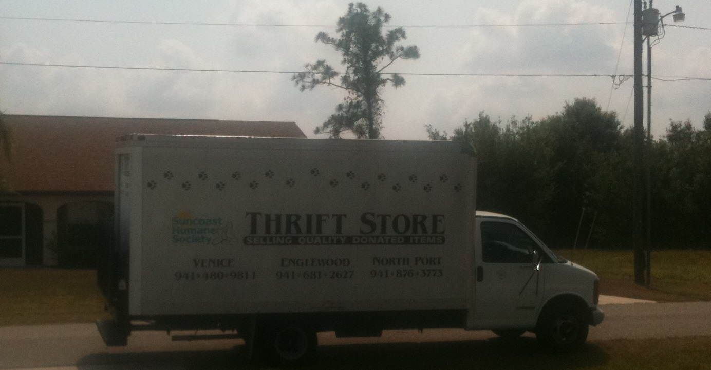 This is a truck used by Suncoast Humane Society's thrift shop to collect donations. This picture was taken in Deep Creek, Florida.